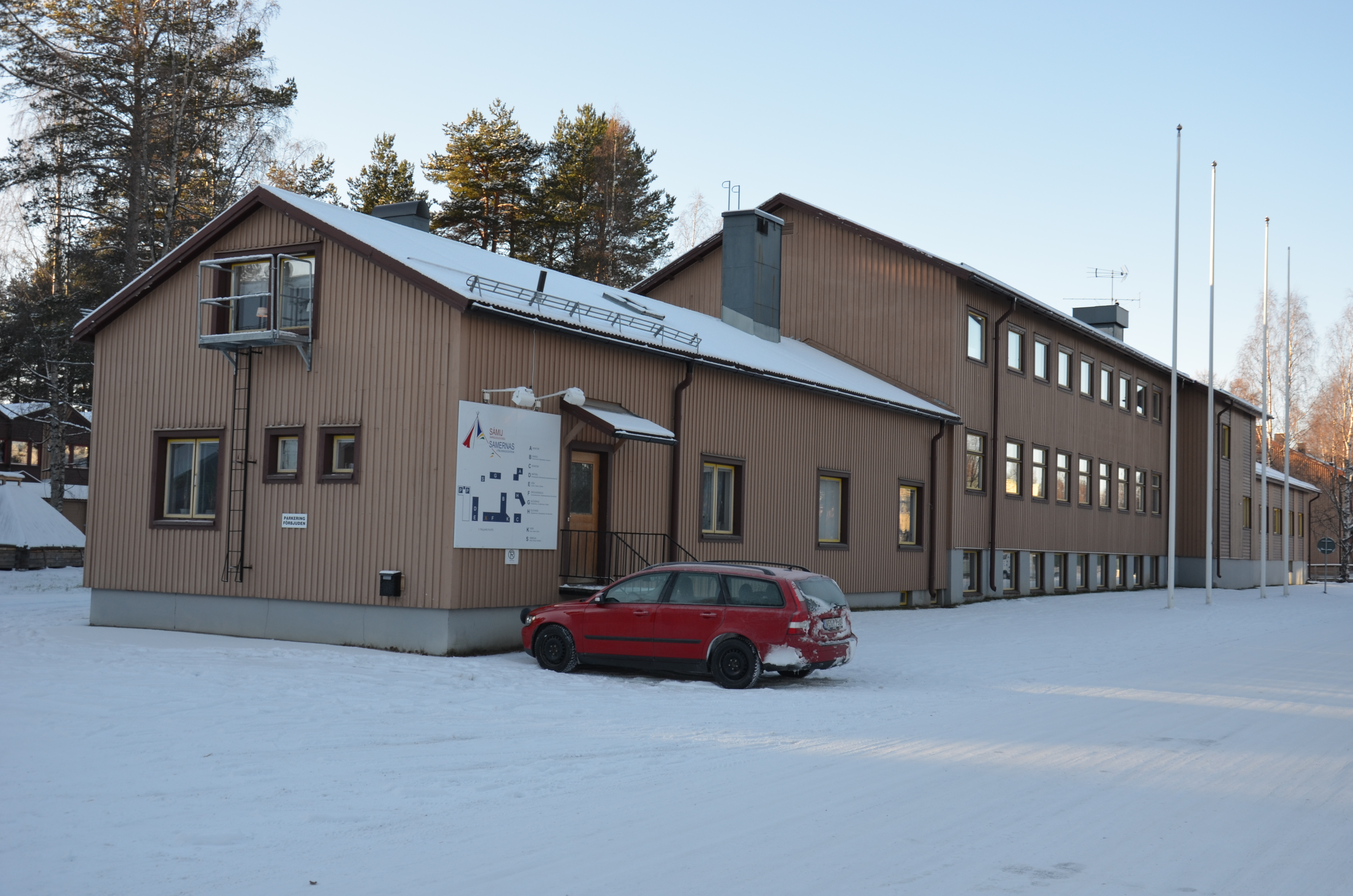 Samernas utbildningscentrum, Jokkmokk